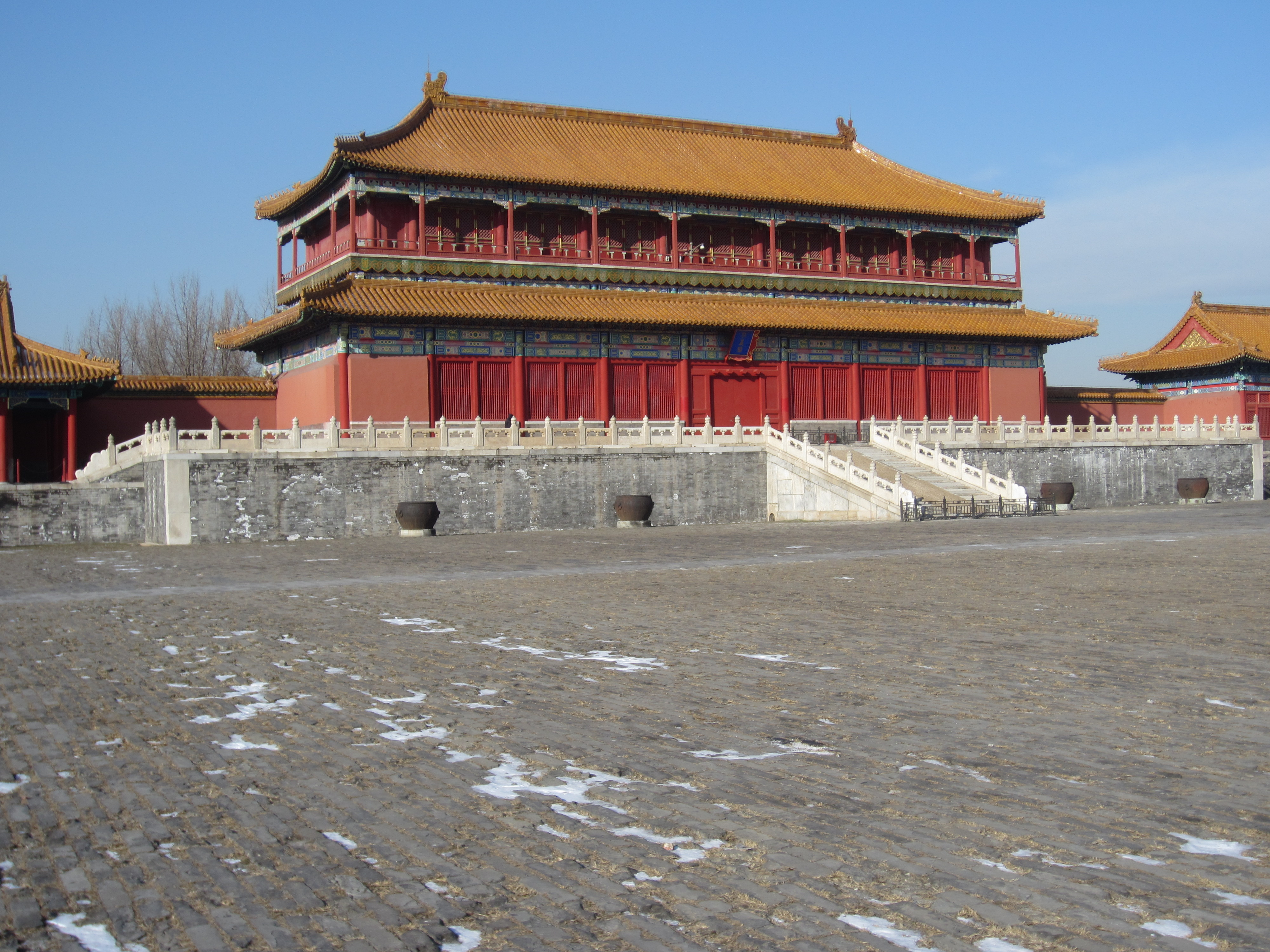 Beijing (November 2016)